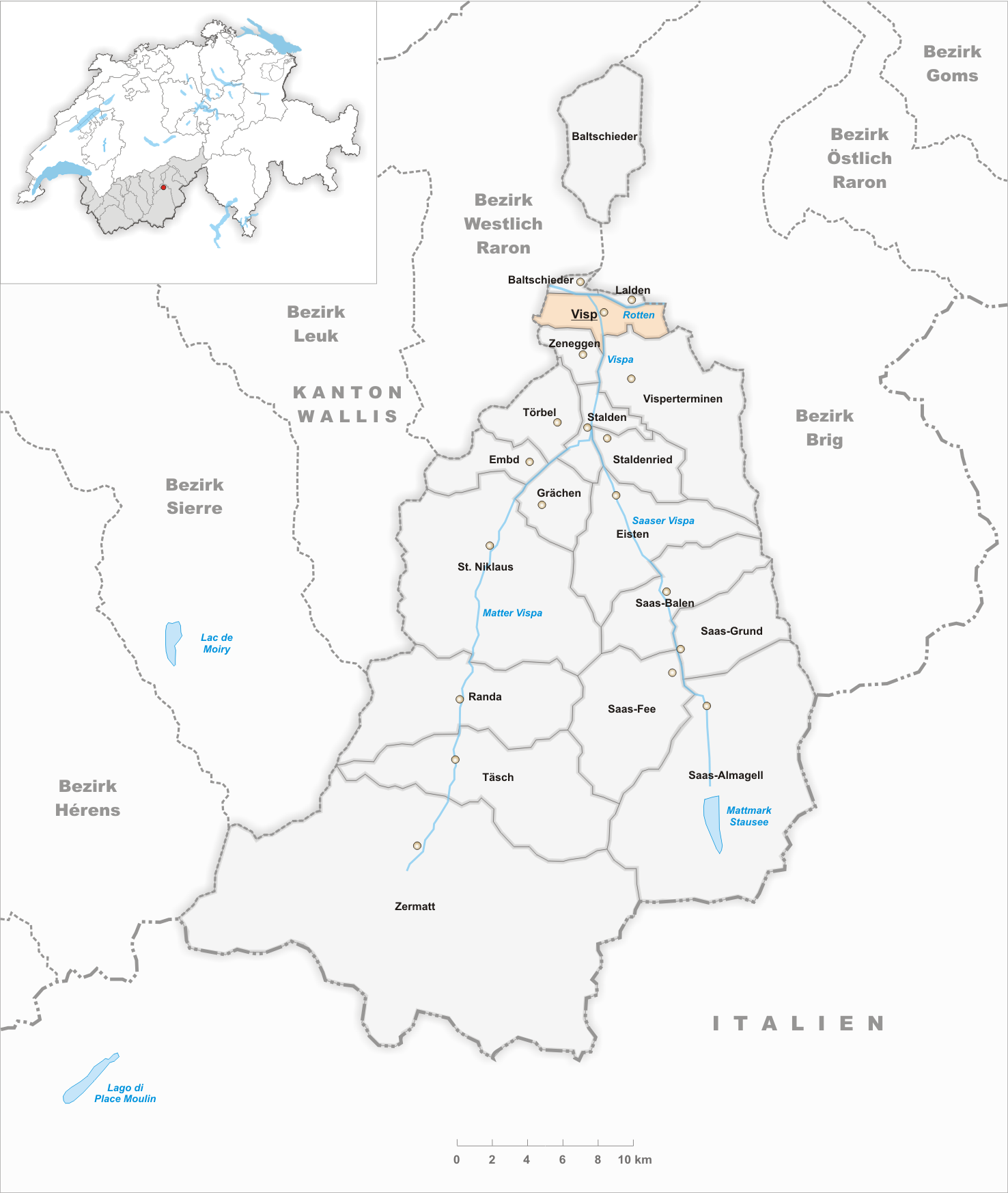 Municipality Visp